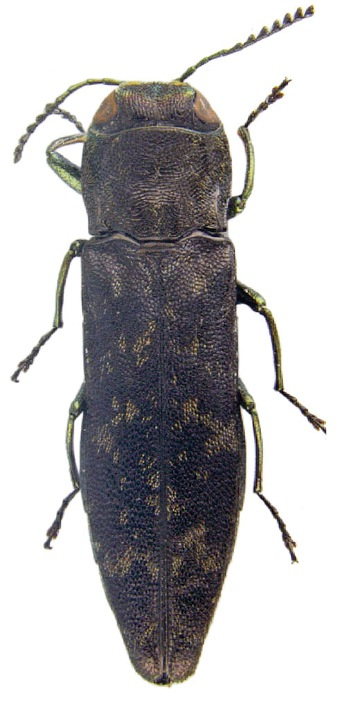 Agrilus nebulosus Jendek 2013, holotype.